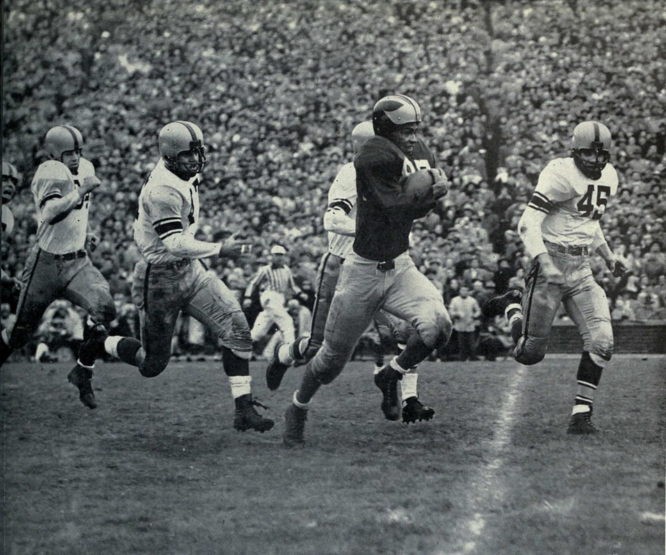 Photograph of Lowell Perry running with the ball This work is in the public domain because it was published in the United States between 1923 and 1963 and although there may or may not have been a copyright notice, the copyright was not renewed. Unless its author has been dead for the required period, it is copyrighted in the countries or areas that do not apply the rule of the shorter term for US works, such as Canada (50 pma), Mainland China (50 pma, not Hong Kong or Macao), Germany (70 pma), Mexico (100 pma), Switzerland (70 pma), and other countries with individual treaties. See Commons:Hirtle chart for further explanation. This work is in the public domain in the United States because it was published in the United States between 1923 and 1977 without a copyright notice. See Commons:Hirtle chart for further explanation. Note that it may still be copyrighted in jurisdictions that do not apply the rule of the shorter term for US works (depending on the date of the author's death), such as Canada (50 p.m.a.), Mainland China (50 p.m.a., not Hong Kong or Macao), Germany (70 p.m.a.), Mexico (100 p.m.a.), Switzerland (70 p.m.a.), and other countries with individual treaties.